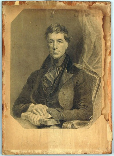 Lord Brougham and Vaux (1778-1868)